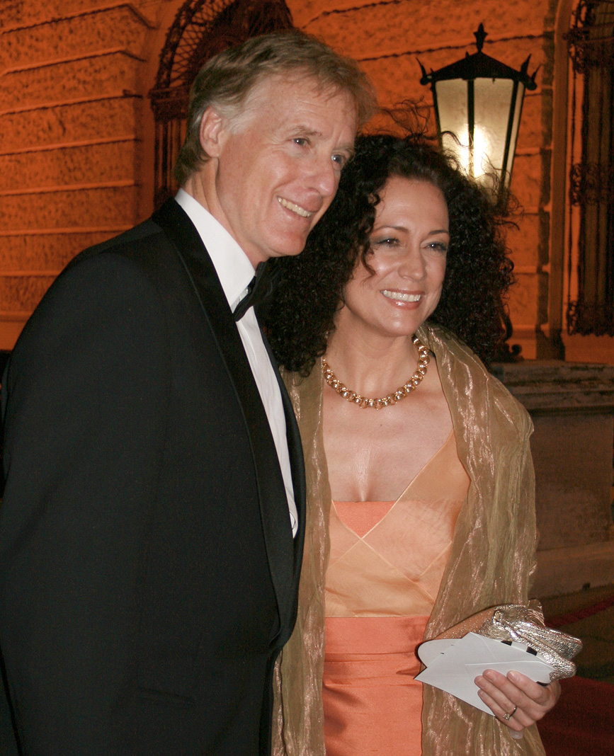 Actors Barbara Wussow and Albert Fortell at the Romy TV awards (Hofburg Imperial Palace in Vienna)